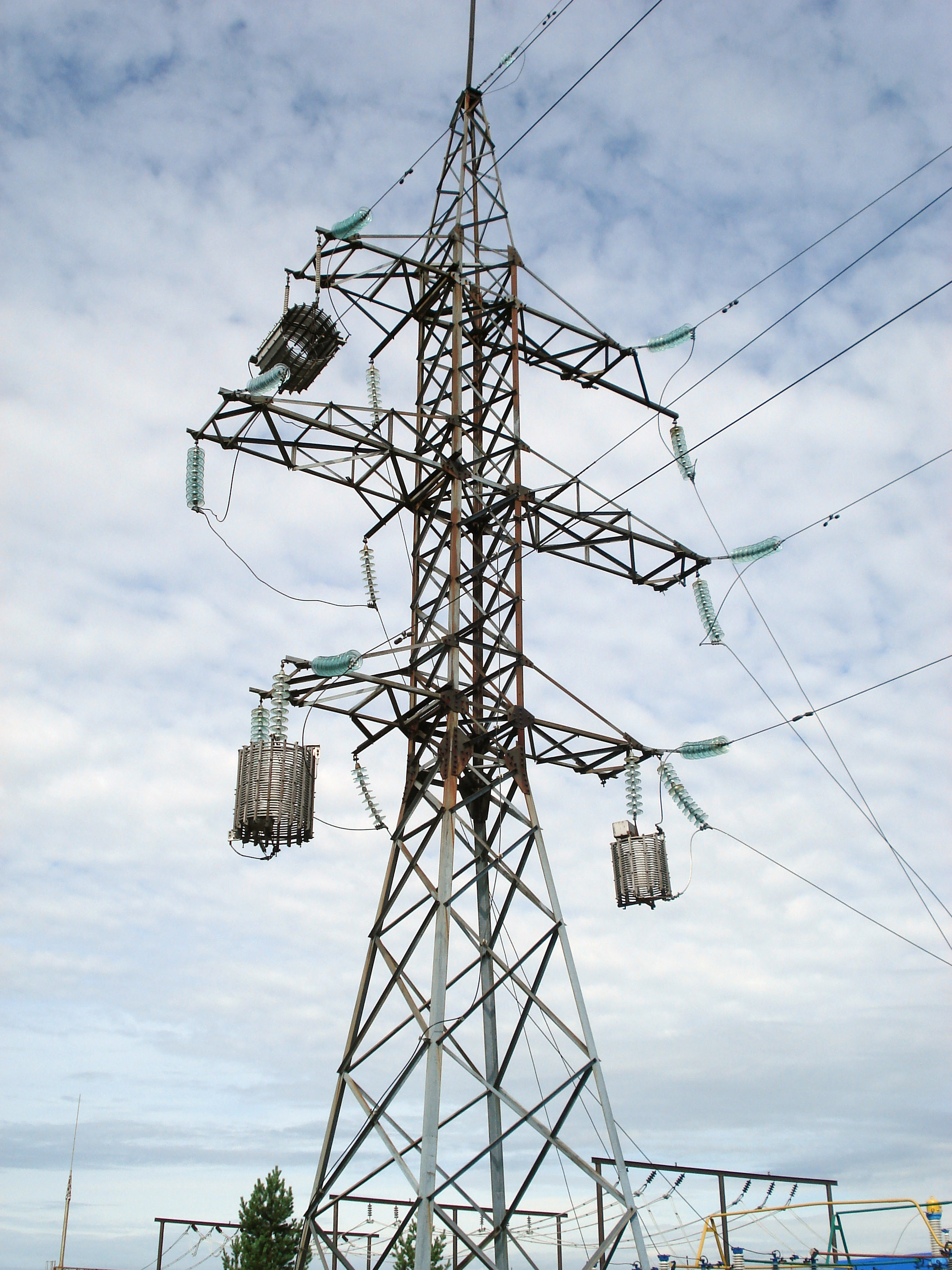 Electricity pylon (110 kV) with conductors, line traps, and optical fiber cable.